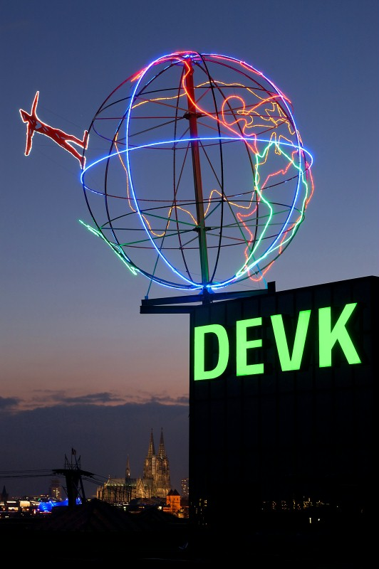 The Kölner Kugel on top of DEVK's headquarters in Cologne